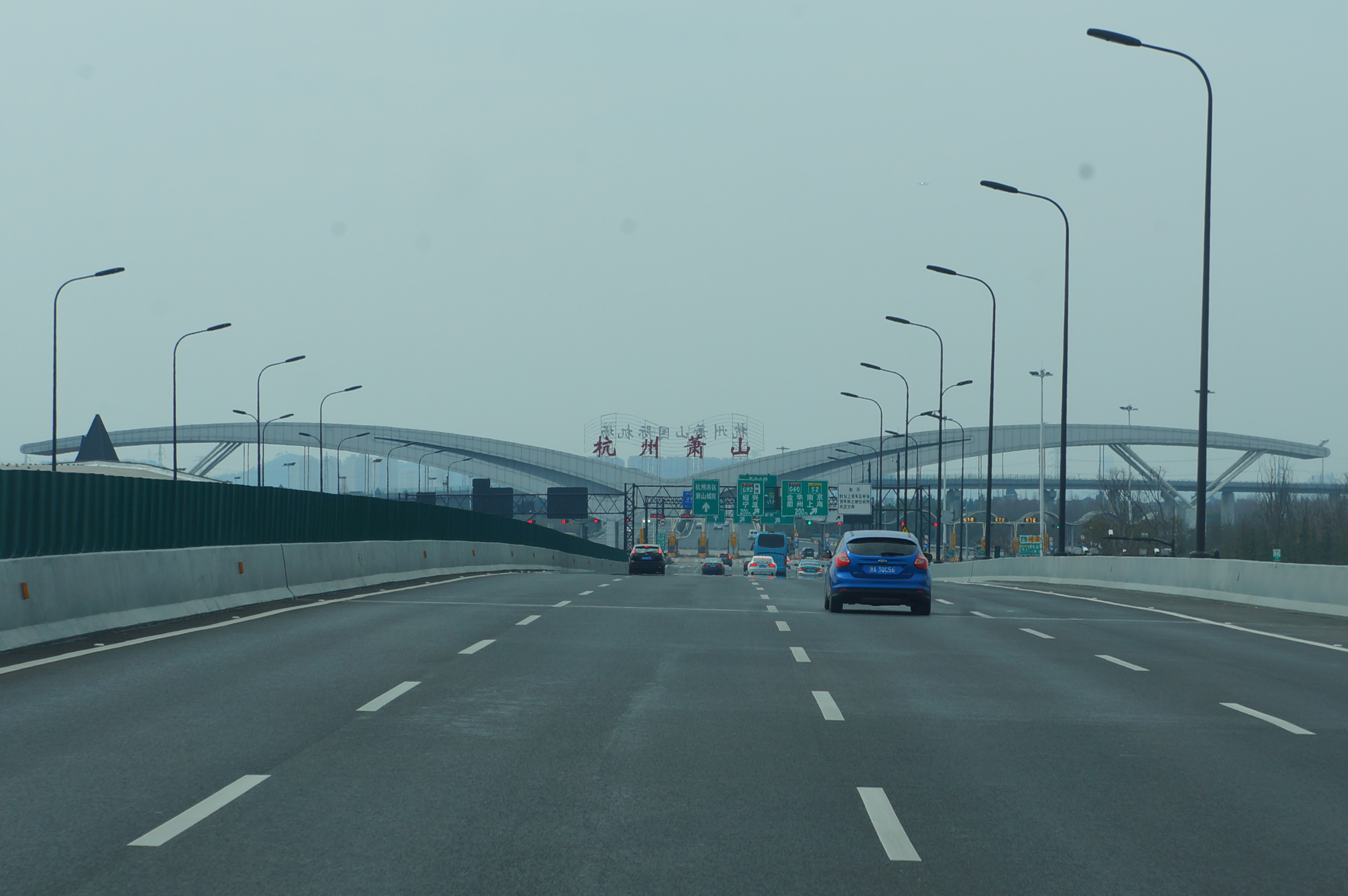 201701 Xiaoshan Airport Toll Plaza